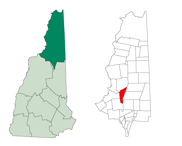 Map of a municipality in Coos County, New Hampshire